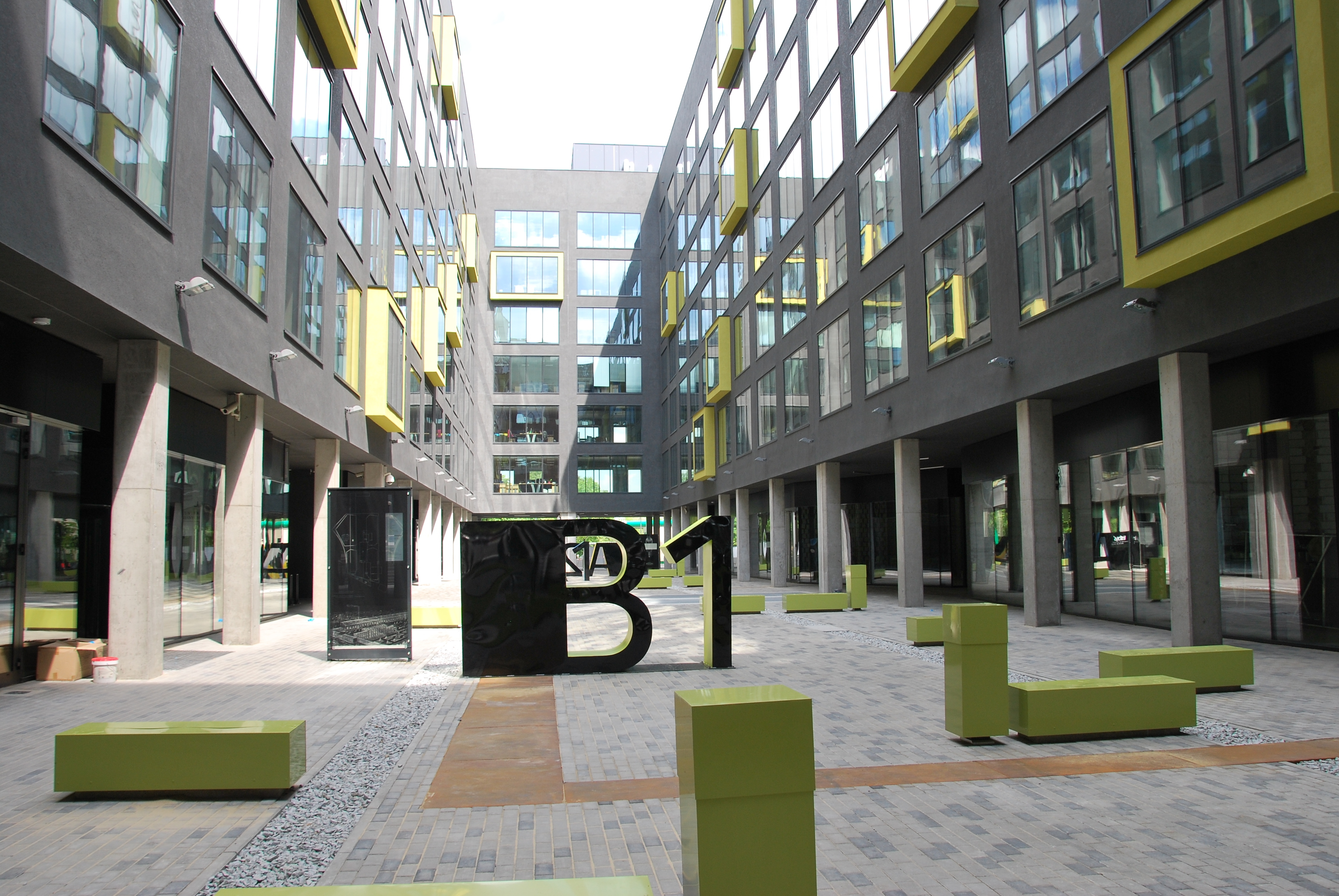 Infosys building patio, Łódź 2013